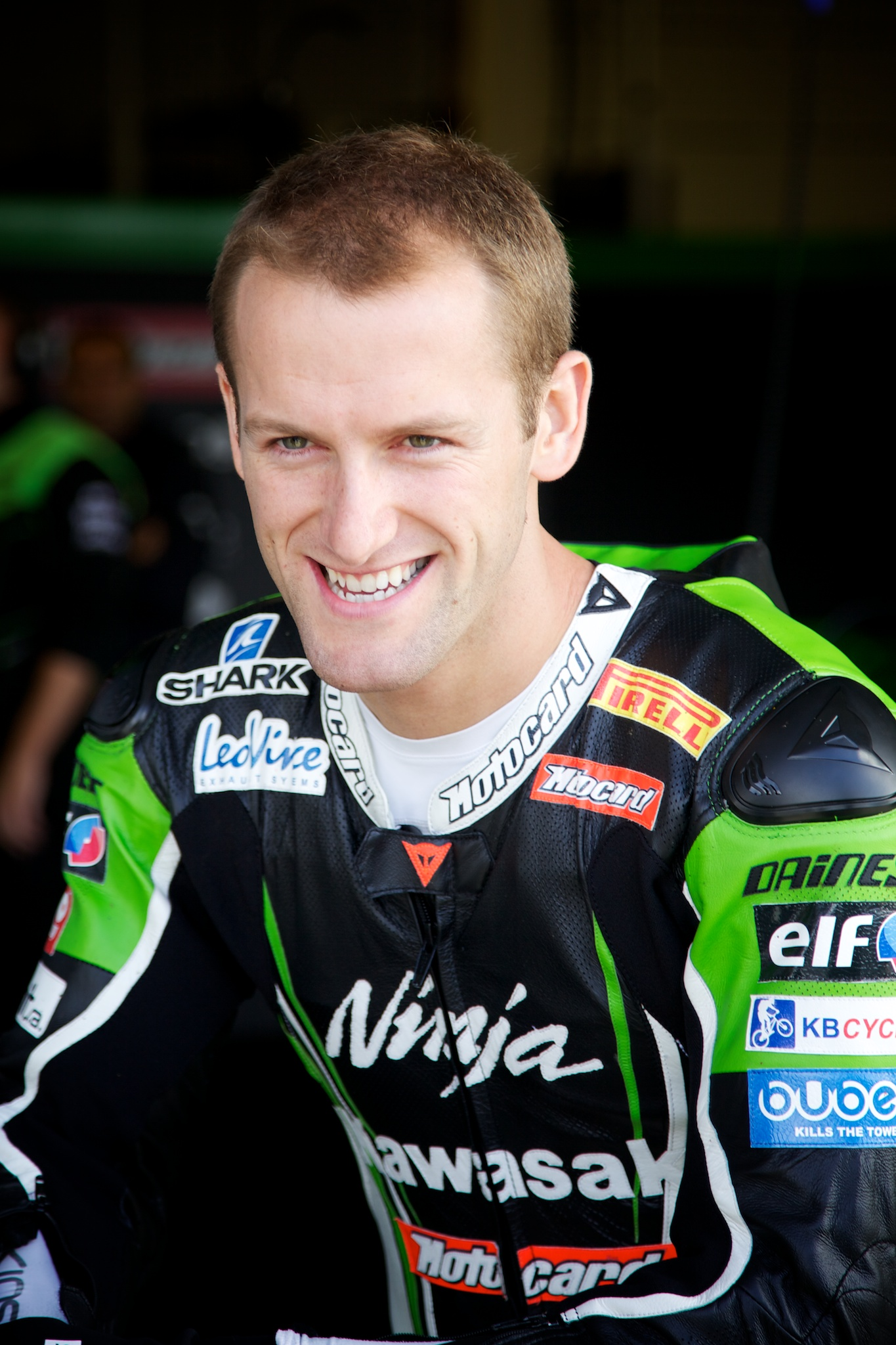 Tom Sykes, Kawasaki motorcycle racer in World Superbikes. Pitlane at Silverstone, 2012.